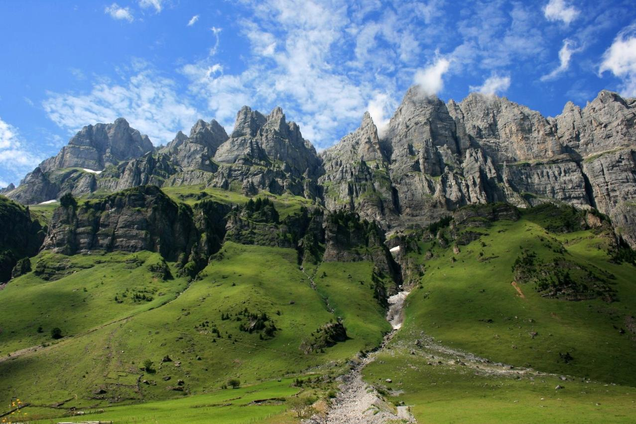 Jegerstock range (Signalstock in centre-right) near Klausenpass